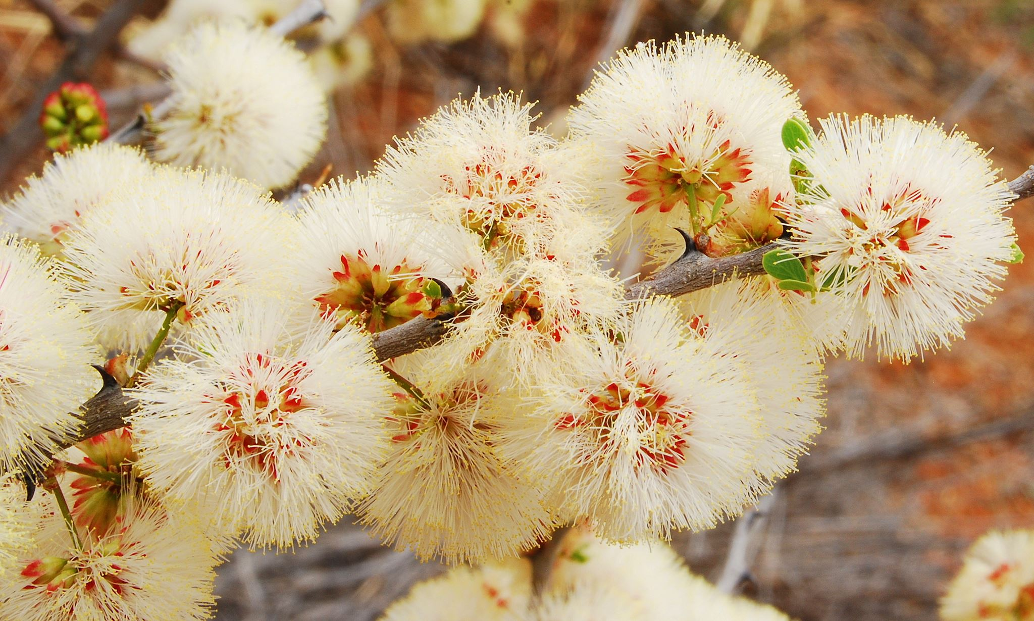 Acacia mellifera subsp. detinens (Burch.) Brenan - Kimberley, Northern Cape, South Africa